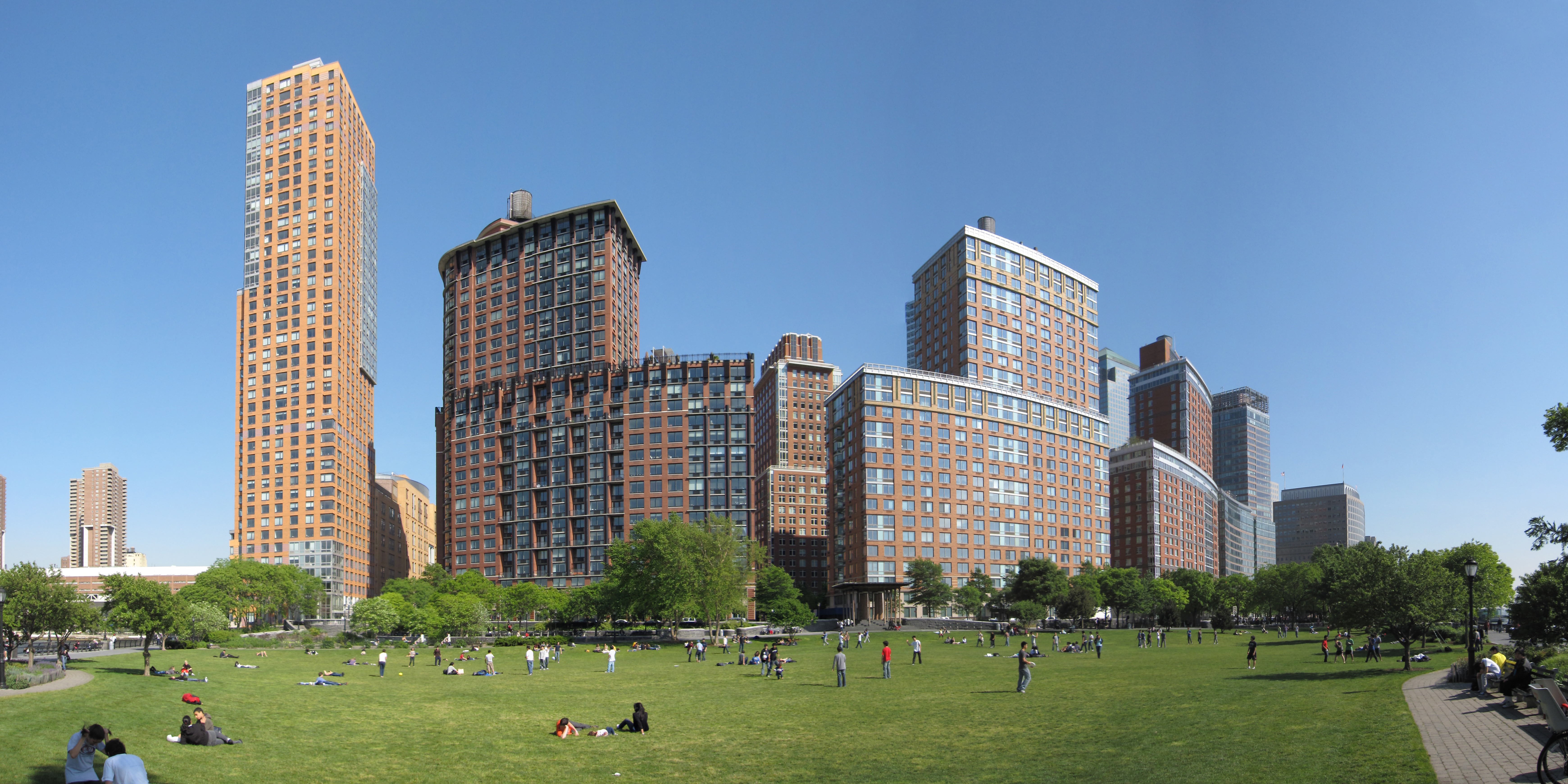 Panorama